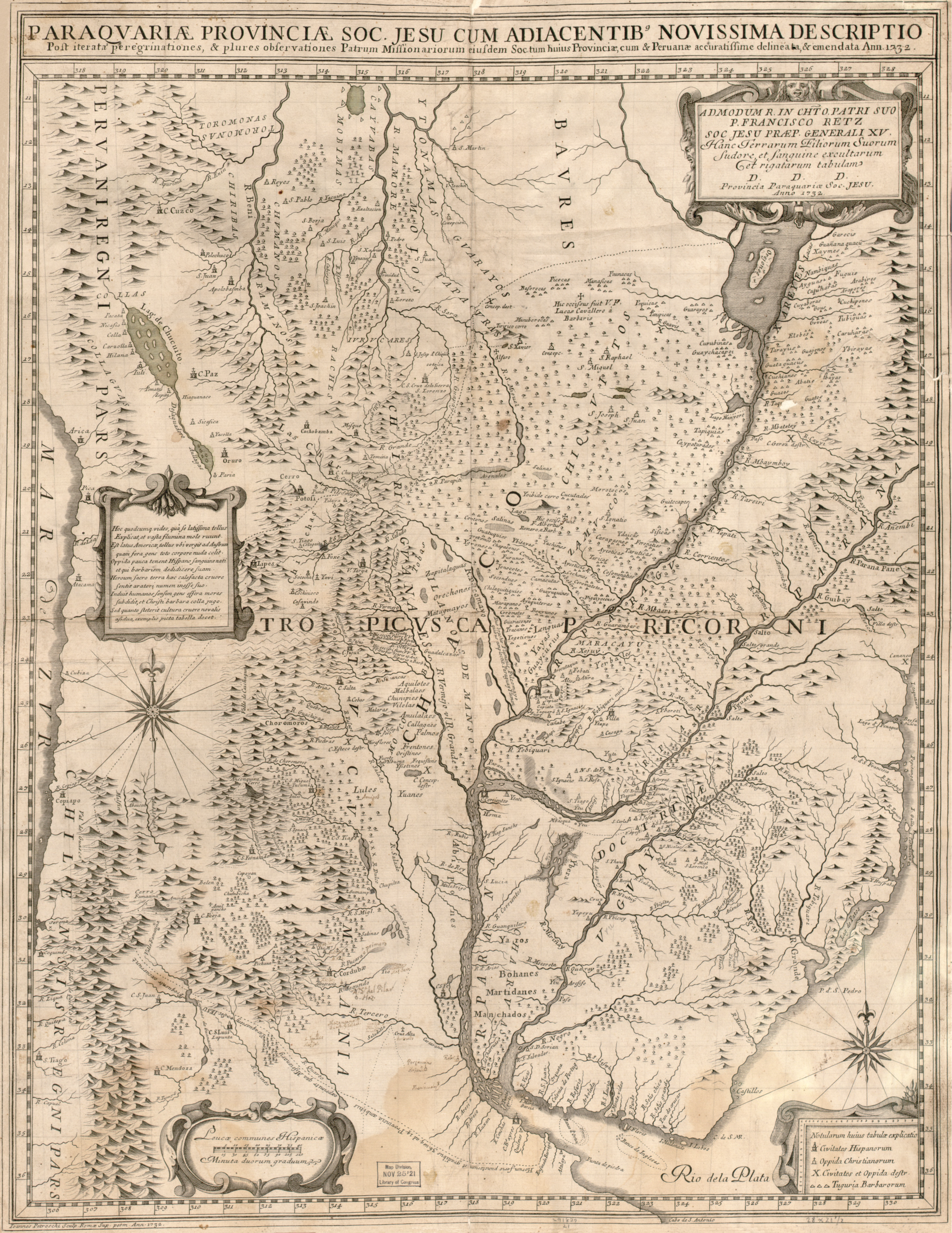 Map (66 x 52 cm) in Latin, with some place names in Spanish, showing the Jesuit province of Paraguay and neighbouring areas, with the main missions and missionary journeys. The map was made in Rome by Giovanni Petroschi (1715-66), and is dedicated to Francisco Retz (1673-1750), Superior General of the Society of Jesus.